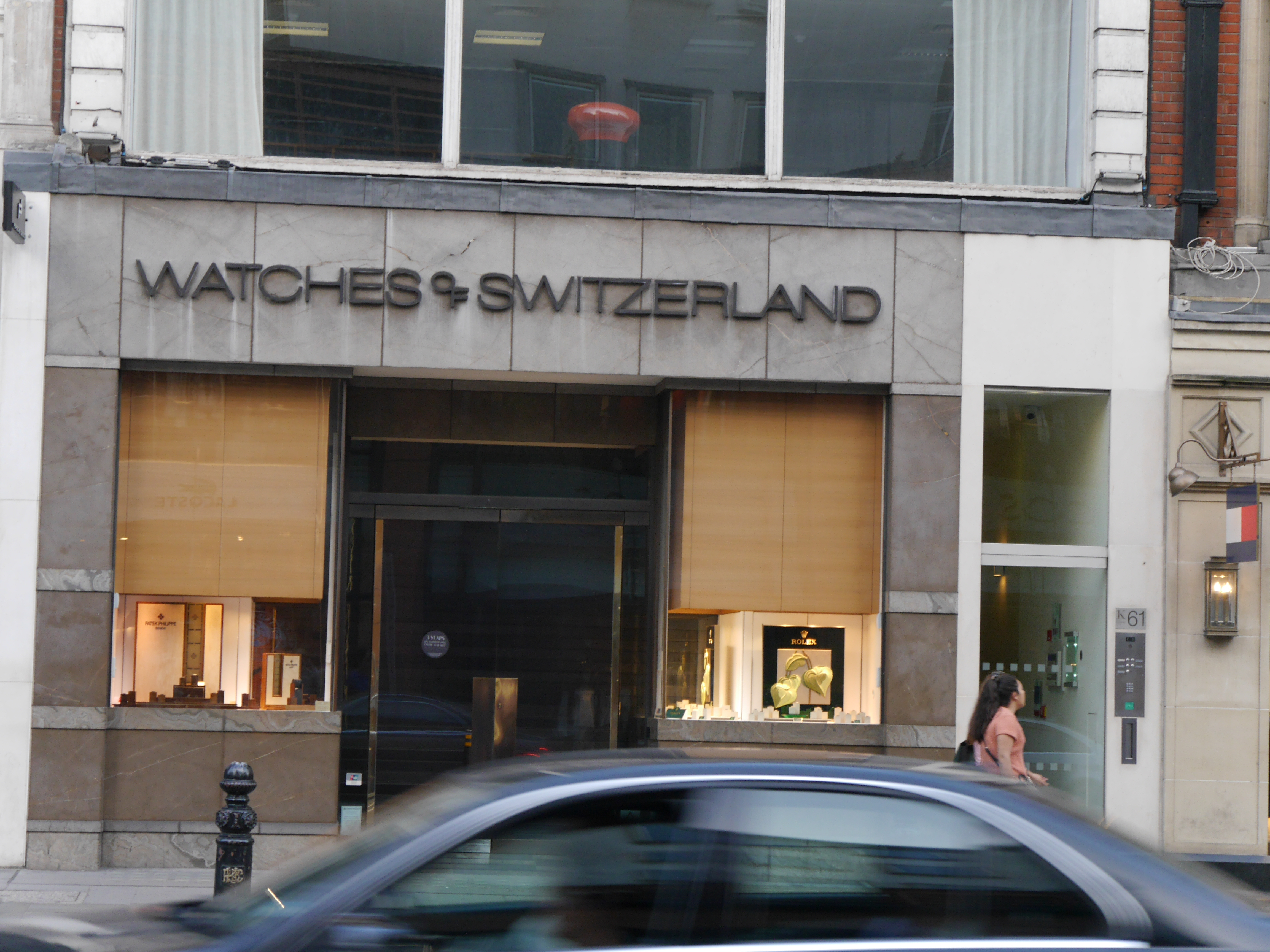 Brompton Road, London, June 2016